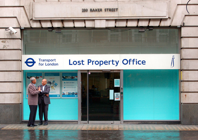 TfL lost property office on Baker Street